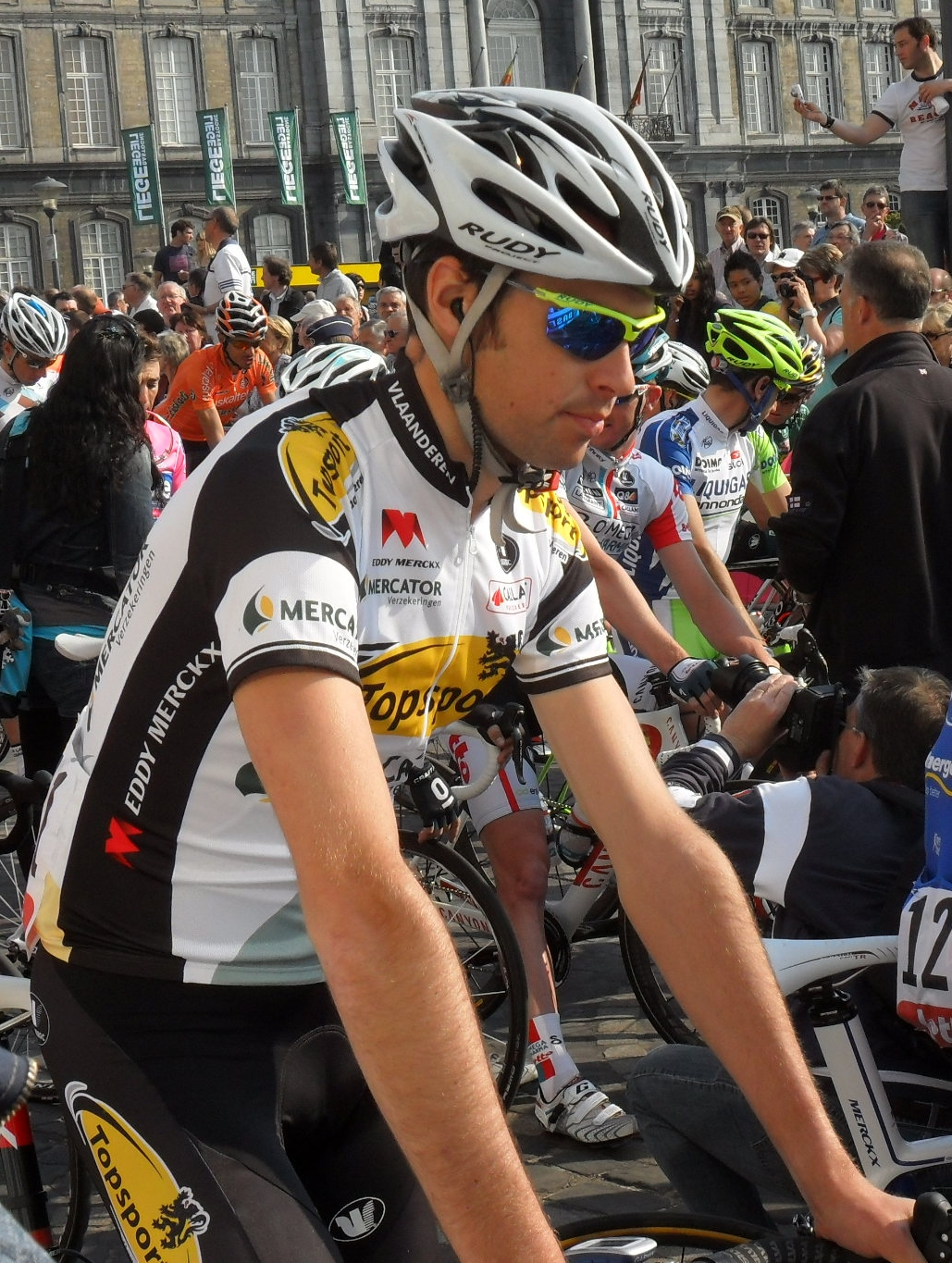 Sander Armée on Liège-Bastogne-Liège 2011 start line